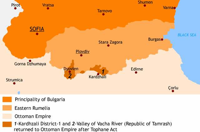 Map of the Balkan Peninsula as of 1878